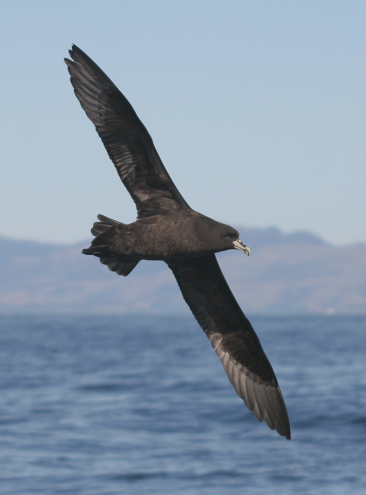 White-chinned Petrel (Procellaria aequinoctialis) in flight, off Kaikoura, New Zealand